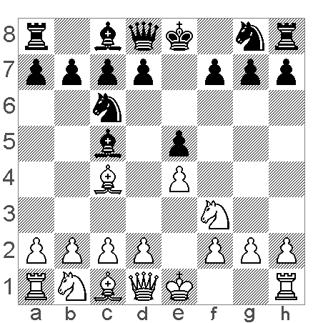 chess diagram Italian game Source: CBlight + my processing